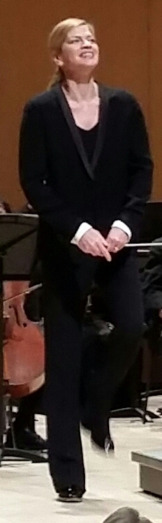 Keri-Lynn Wilson photographed in Montréal , Québec , Canada at Regina Assumpta College.